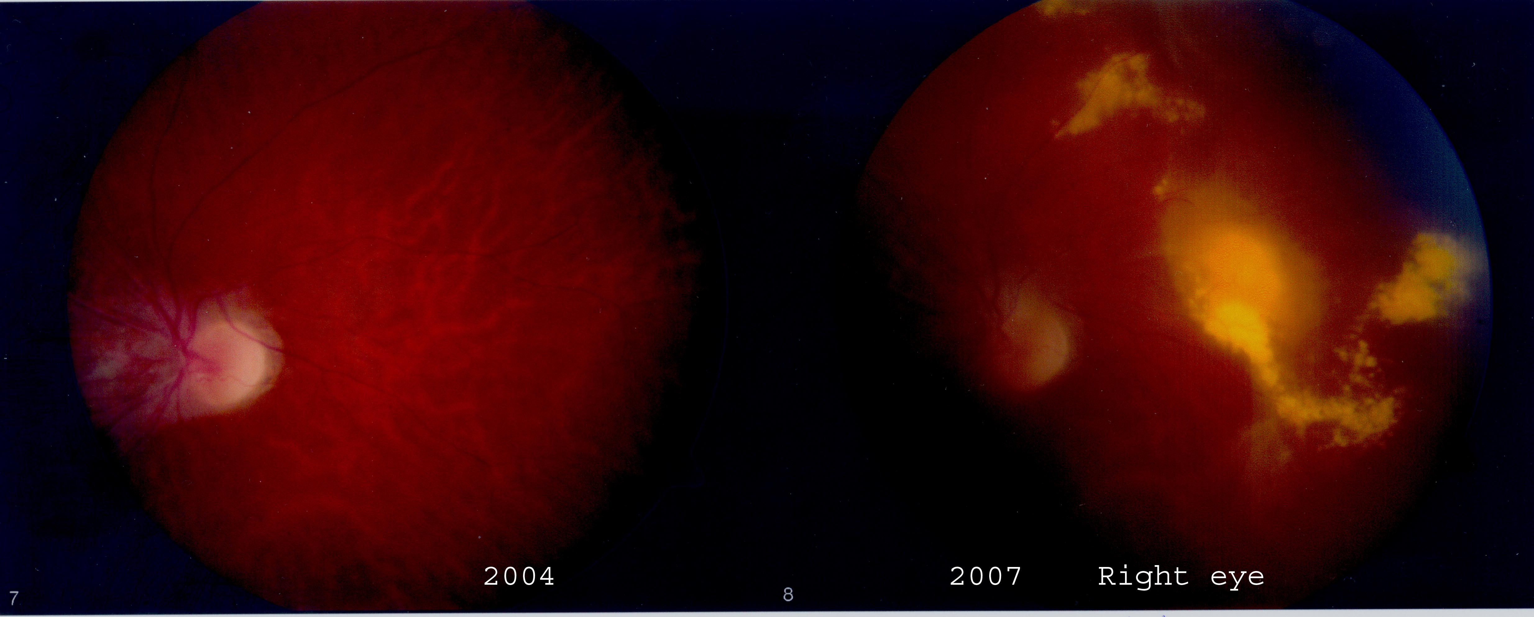 The image shows changes in the retina of the right eye of a patient with the rare genetic progressive disease Familial Exudative Vitreoretinopathy also known as FEVR, over a three year period. It shows both the development of exudate and dragging of the retina.